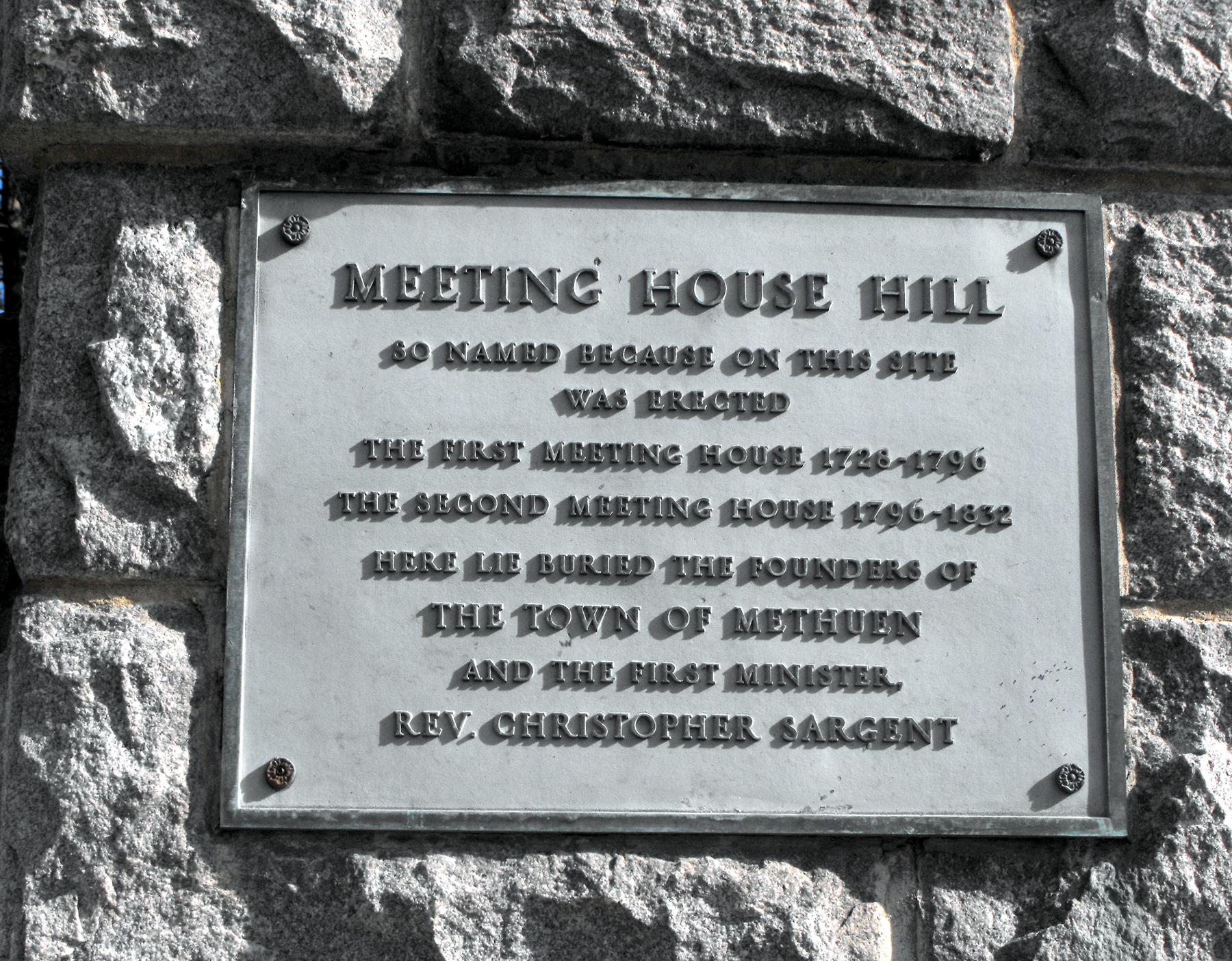 Sign at Daddy Frye's Hill Cemetery , East and Arlington Sts. Methuen, MA. Also known as Meeting House Hill